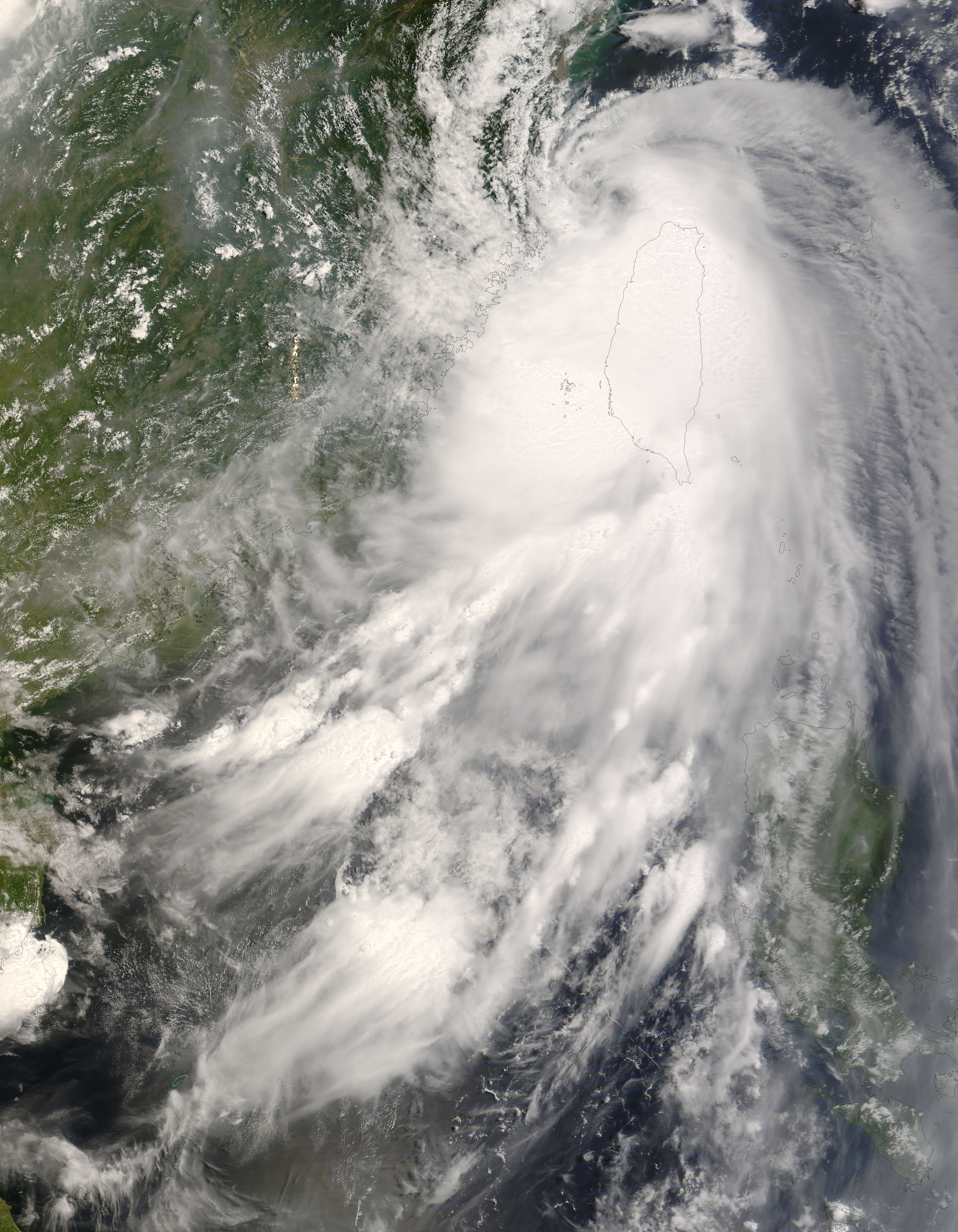 Typhoon Kalmaegi (2008) as seen from Terra Satellite on 2008-07-18